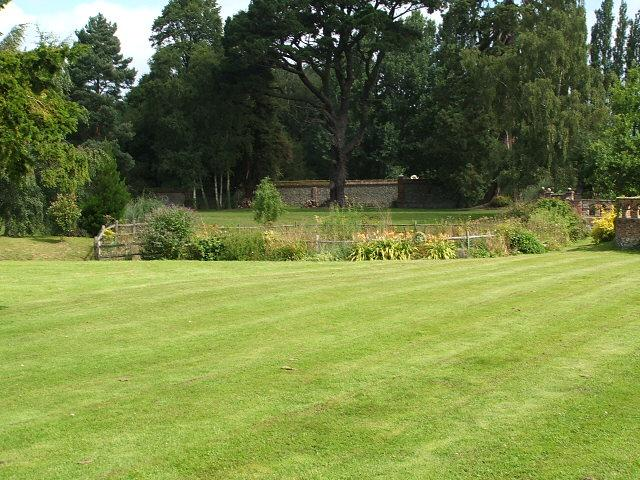 Sunken pond and other garden features in the grounds at Sharsted Court